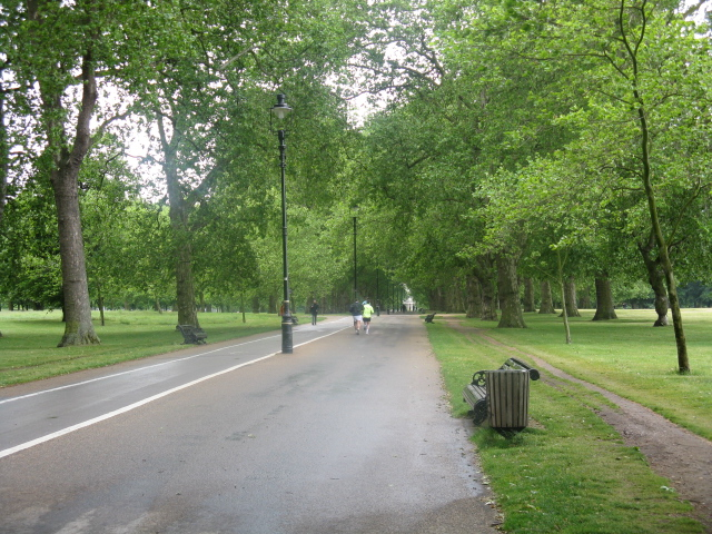 Broad Walk, Hyde Park